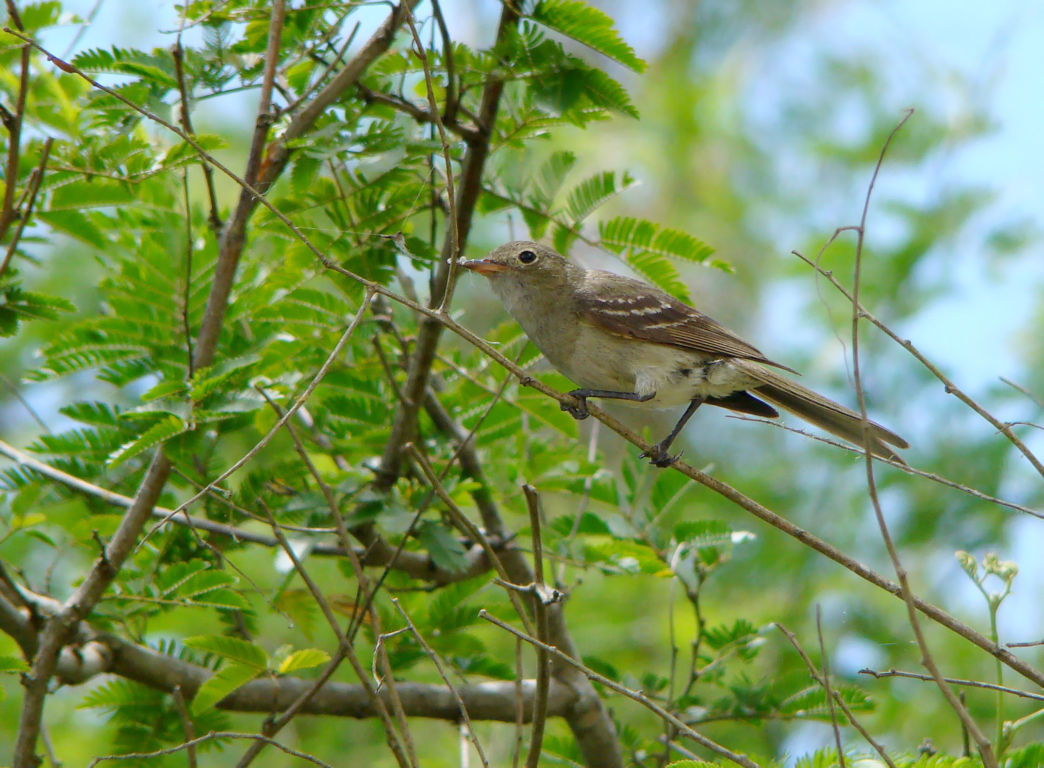 Elaenia mesoleuca photographed in Rio Grande do Sul, Brazil, in December 2009.